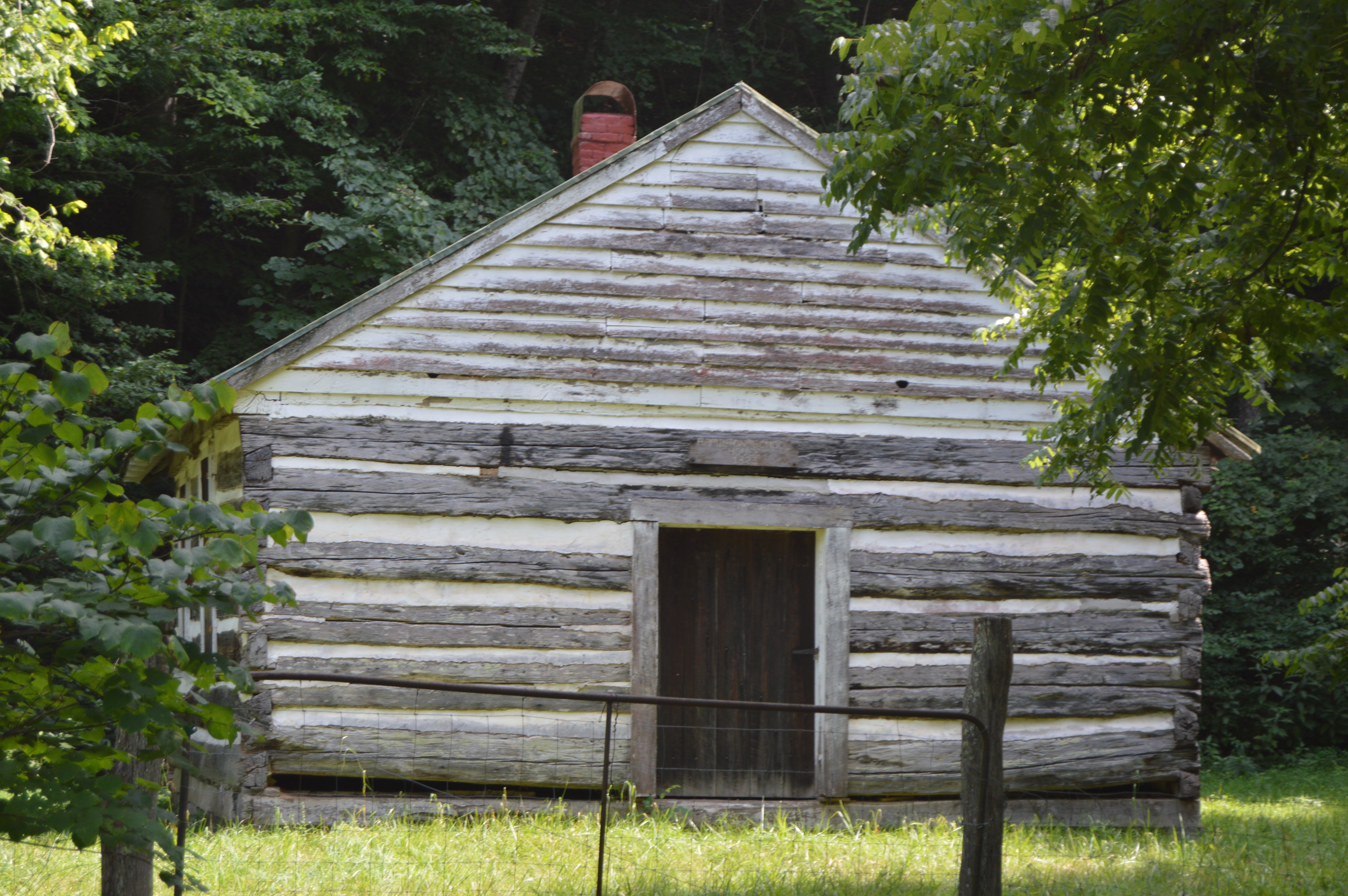 Front of the former Hamilton Schoolhouse, located on Buffalo Road Road southwest of Lexington in Rockbridge County, Virginia, United States. Built in 1823, it is listed on the National Register of Historic Places.